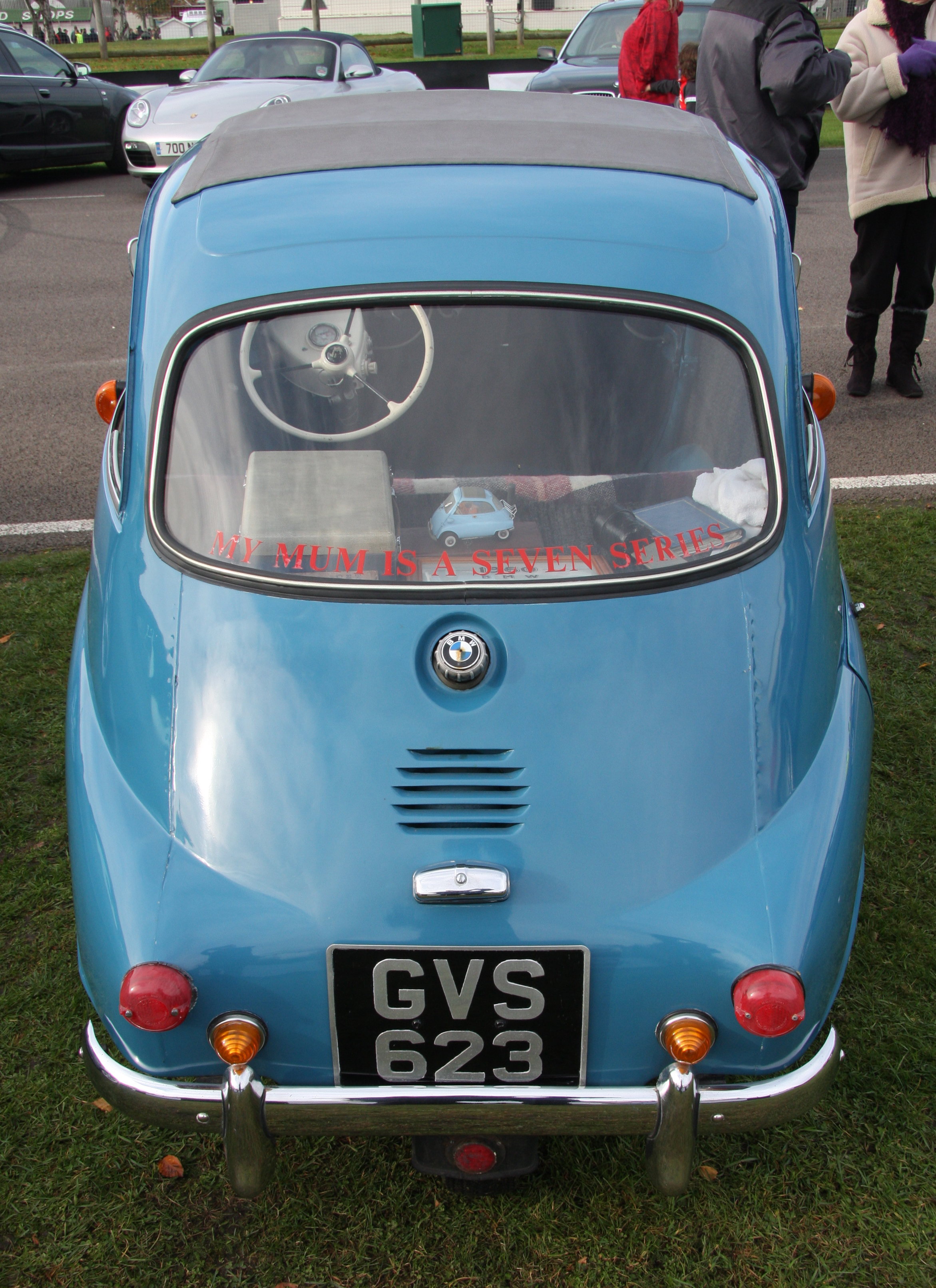 300cc, LHD assembled at Brighton